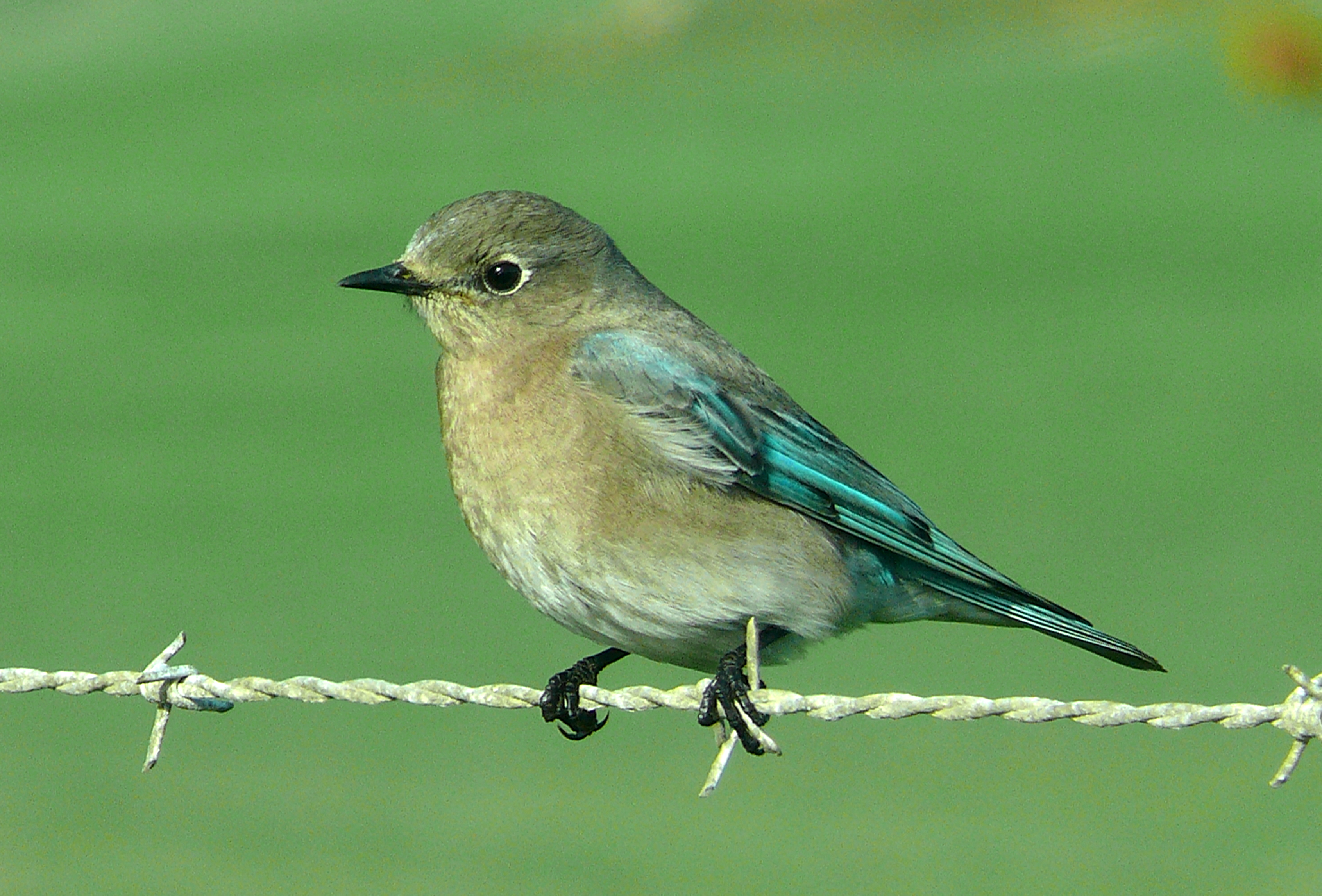 Sialia currucoides female My first Mountain Bluebird, seen on Turri Road in a flock of about 15 birds. Western Bluebirds are more often seen here.